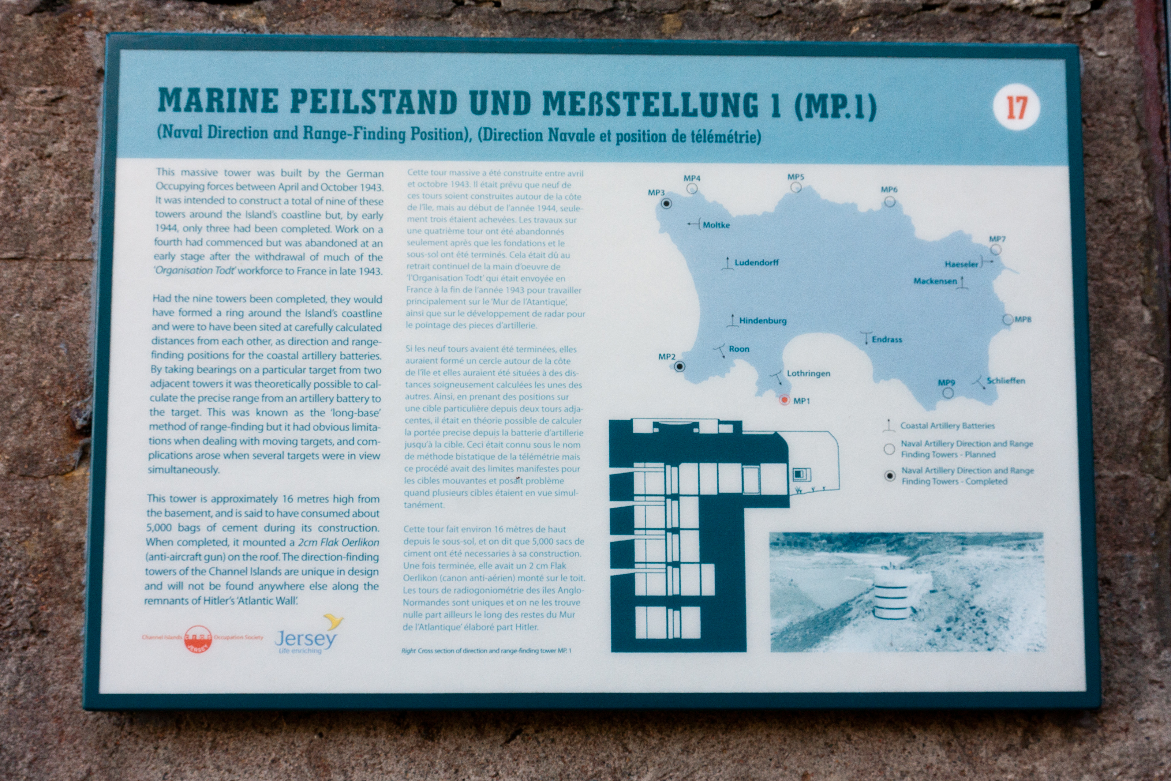 Plaque attached to the MP1 tower at Battery Lothringen.